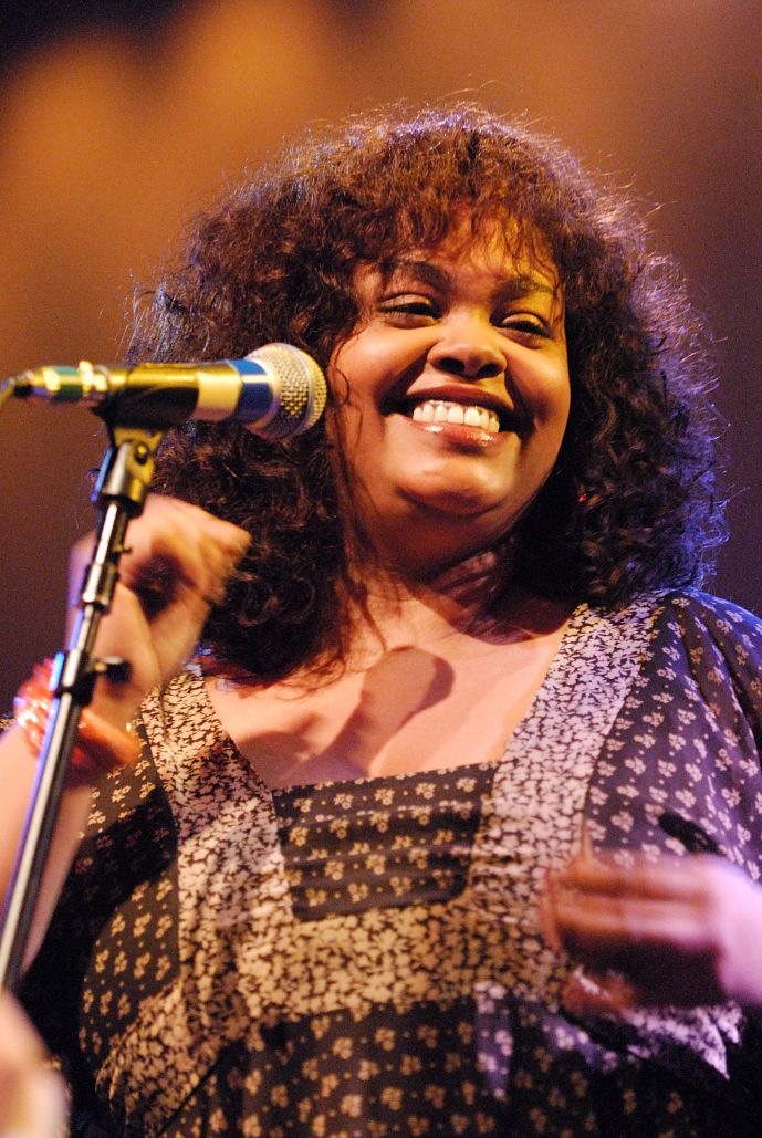 Jill Scott Performing at the 2007 Black Lily Film & Music Festival (World Cafe Live)